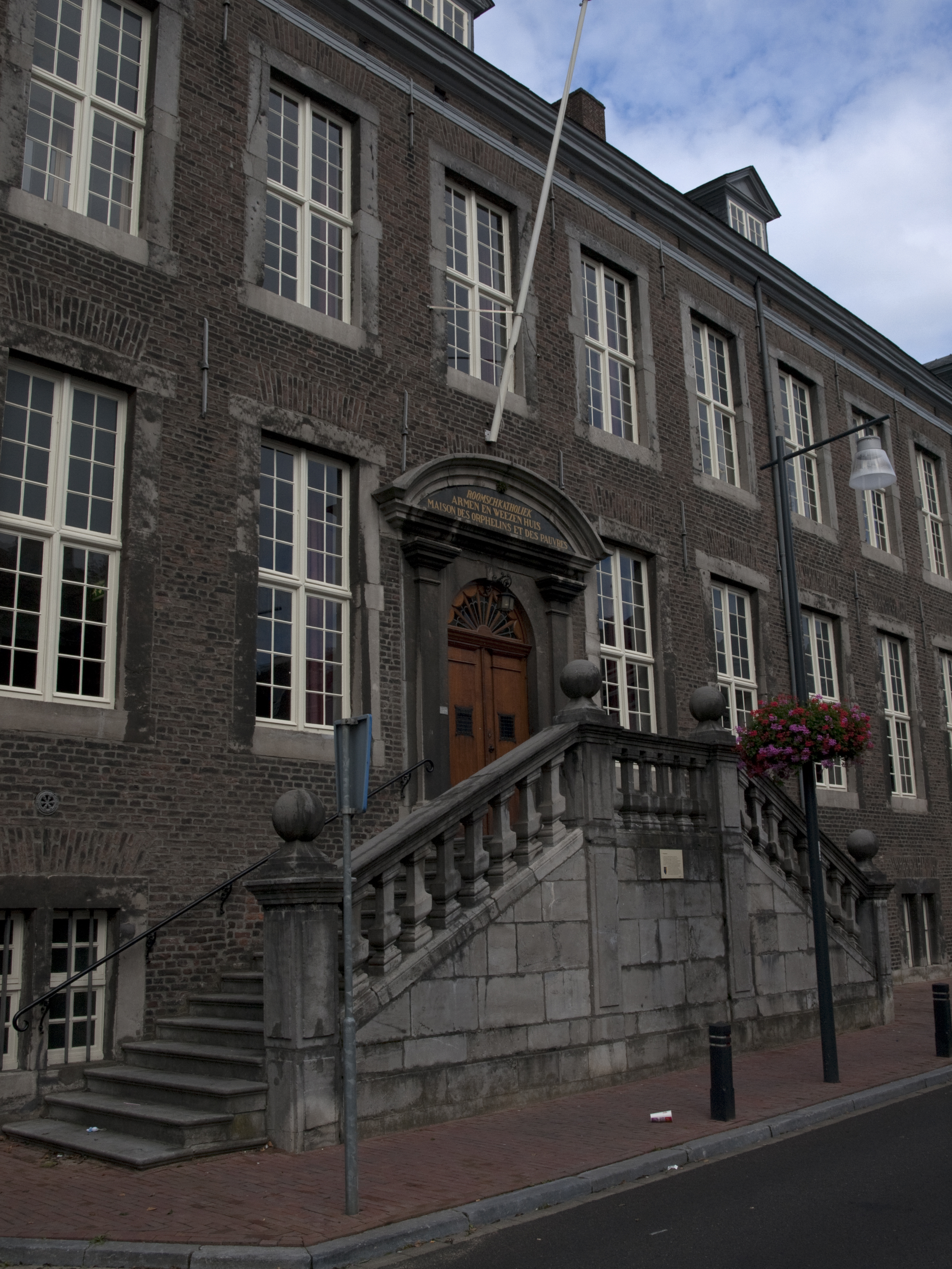 Princenhof, main entrance, Pollartstraat 8, Roermond